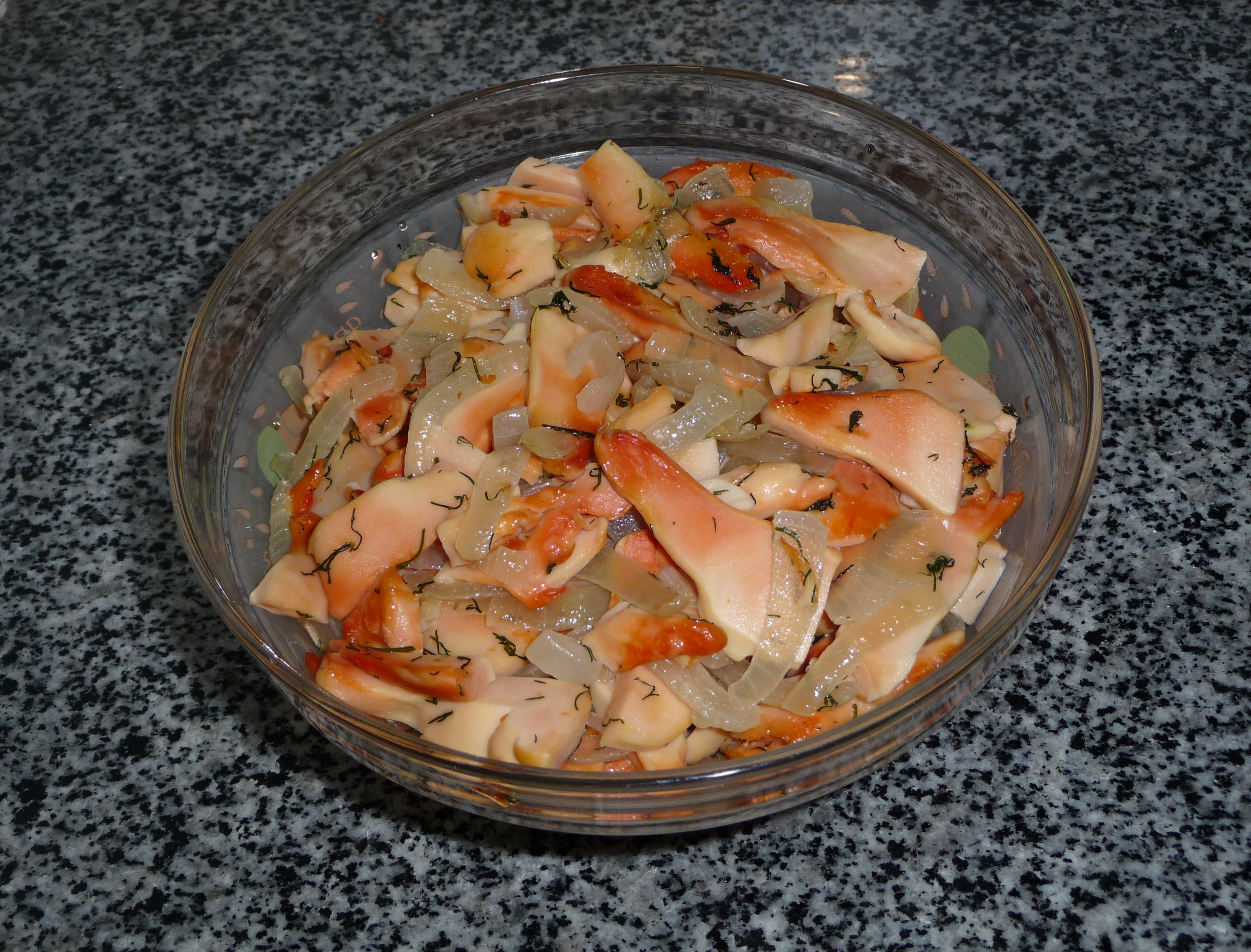 Sulphur polypore (Laetiporus sulphureus), prepared dish. This mushroom also called "chicken polypore" and "chicken-of-the-woods". At cooking yellow-colored fungi becomes pink.